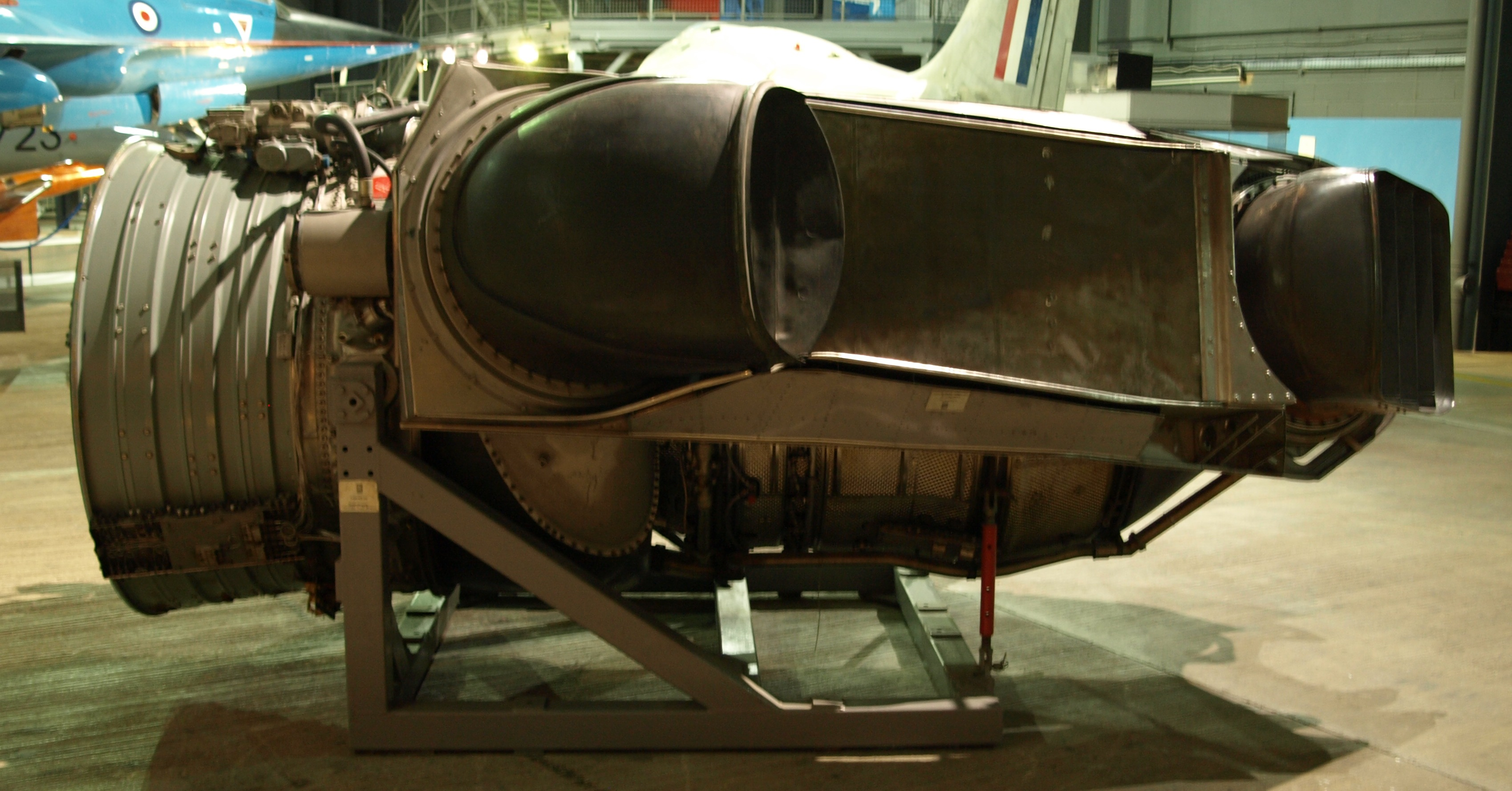 Bristol Siddeley BS100 turbofan engine on display at the Fleet Air Arm Museum, RNAS Yeovilton.